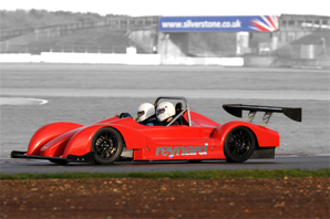 Reynard Racing Cars - Inverter Test at Silverstone Circuit UK